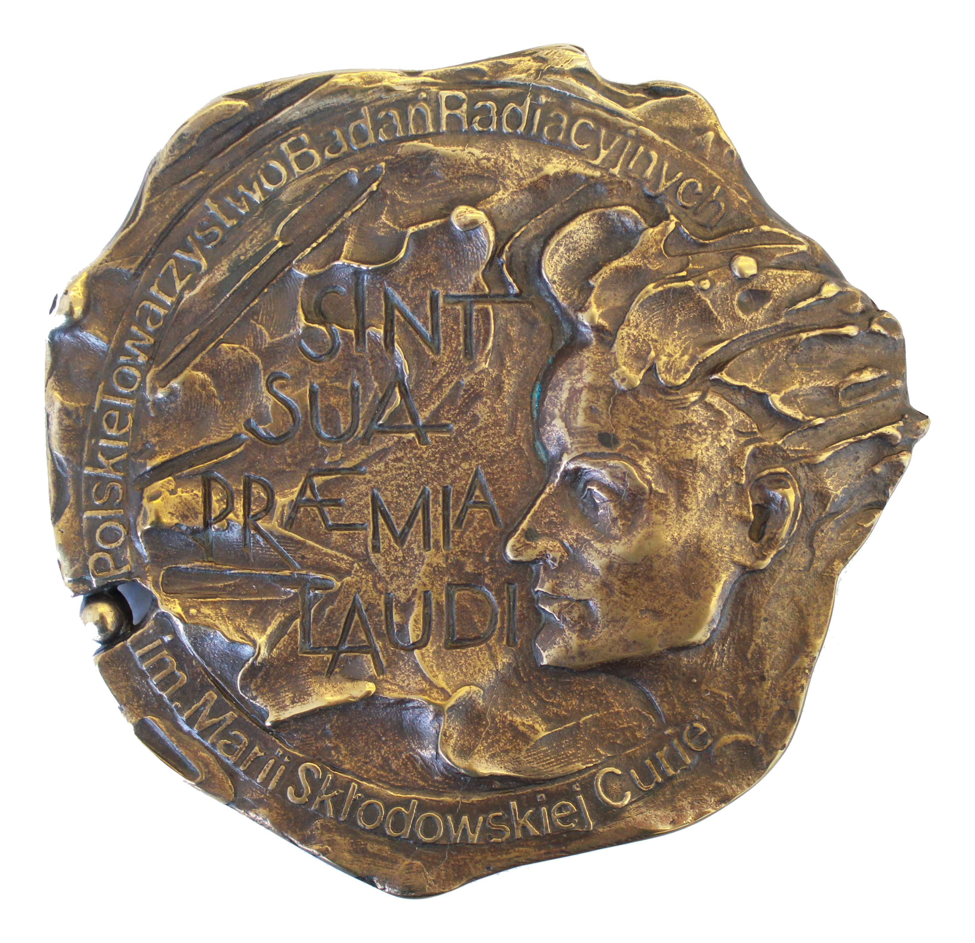 The Maria Sklodowska-Curie medal - the highest scientific prize awarded by the Polish Radiation Research Society